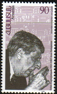 Stamp of Armenia